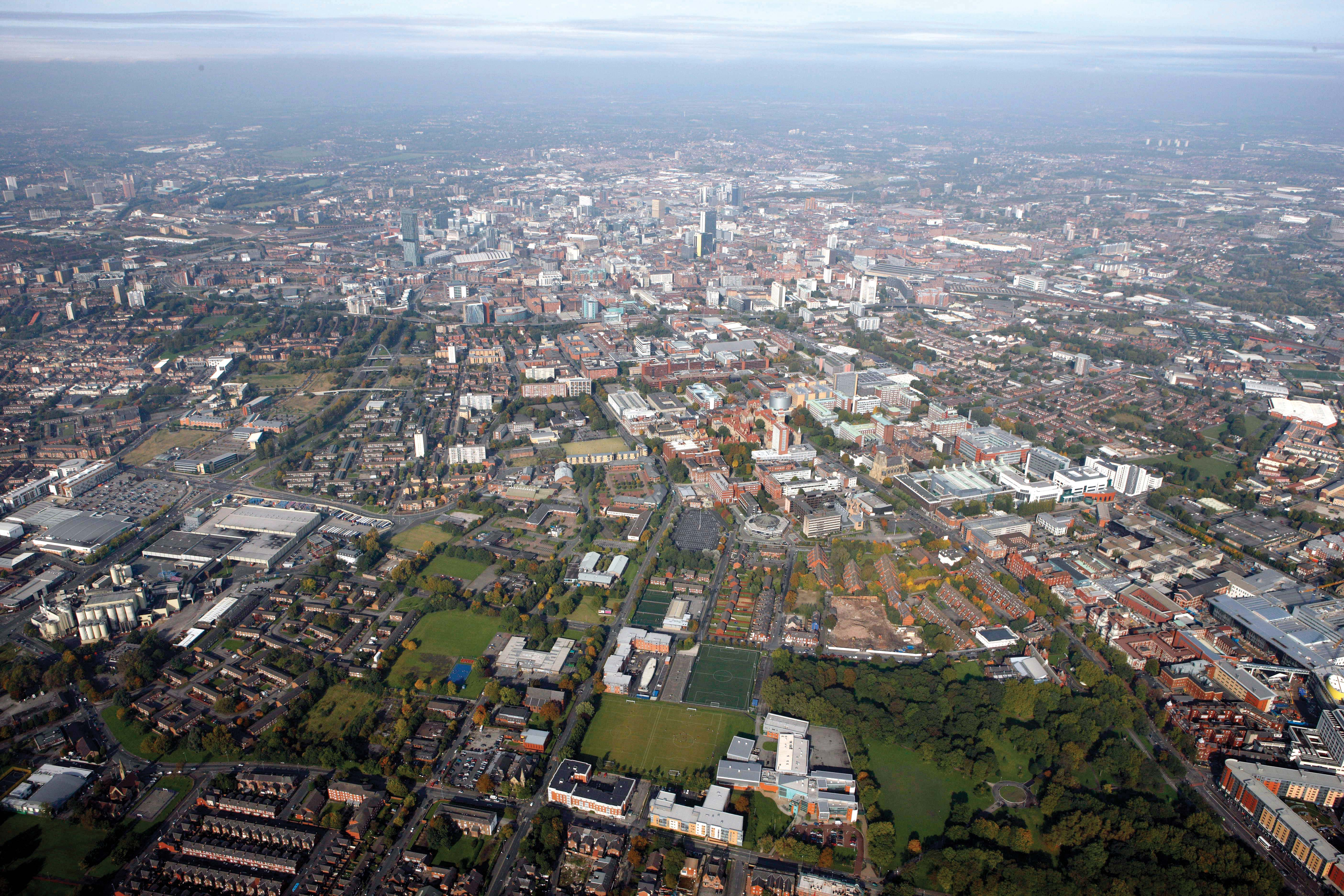 Manchester University Campus